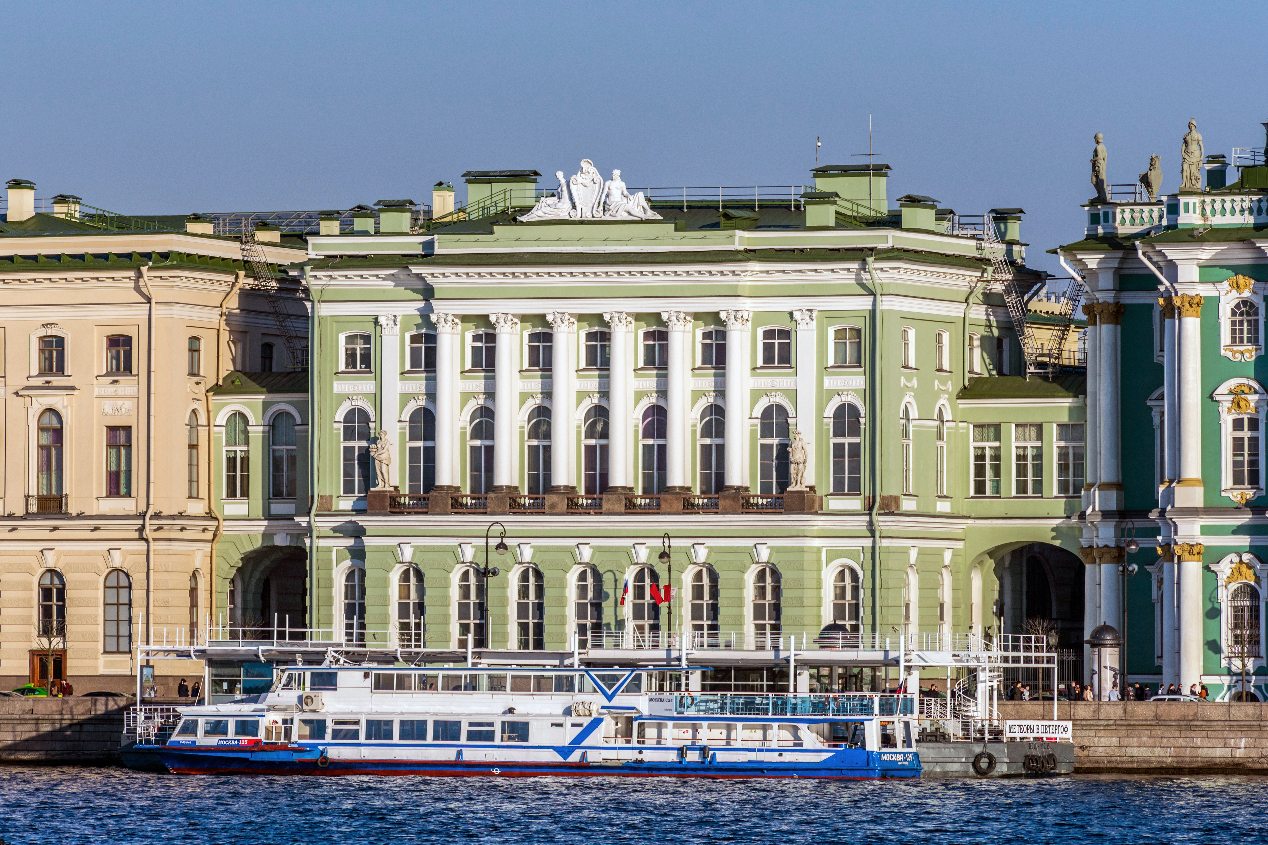 Small Hermitage in Saint Petersburg. View from Palace Embankment